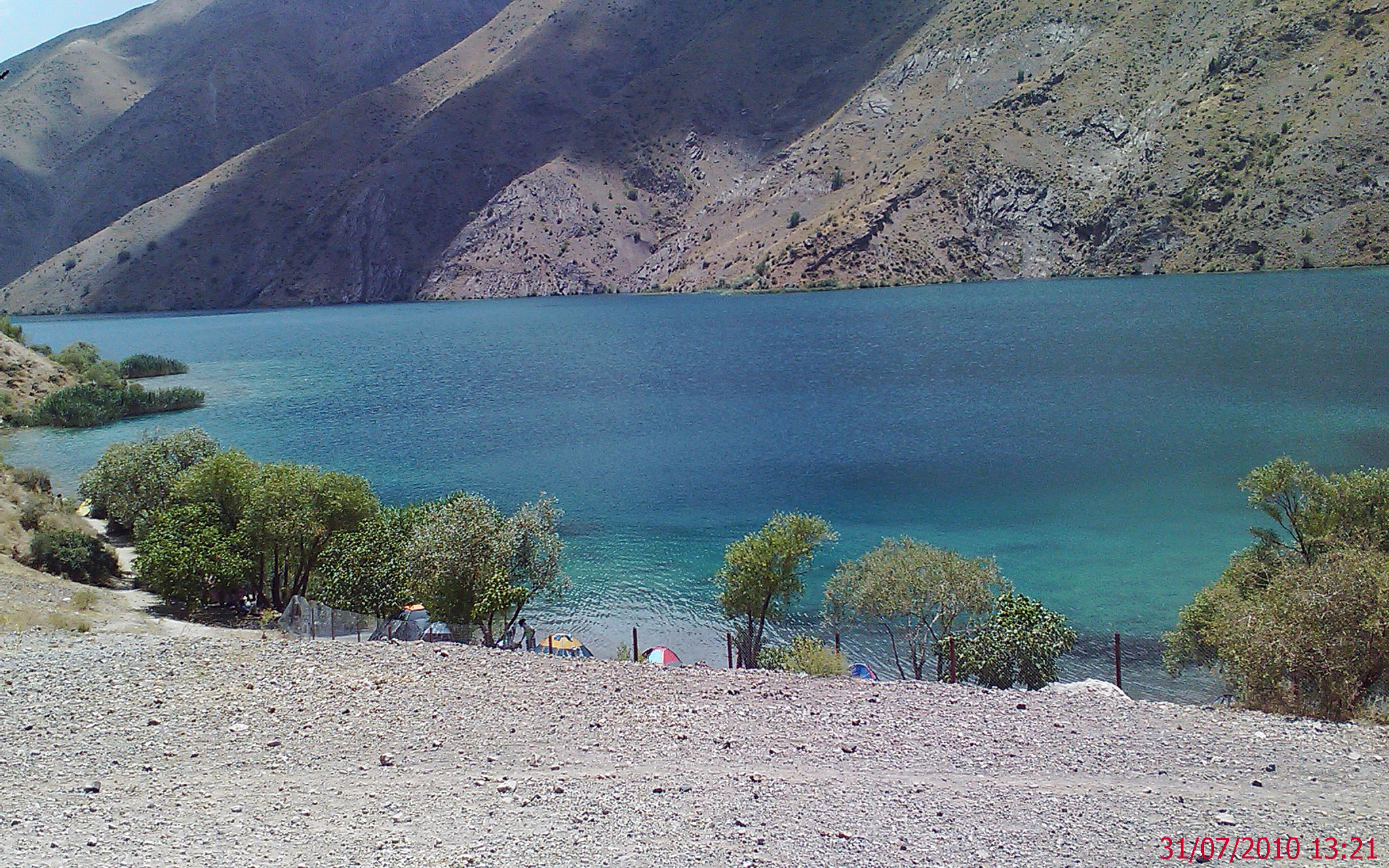 Gahar lake